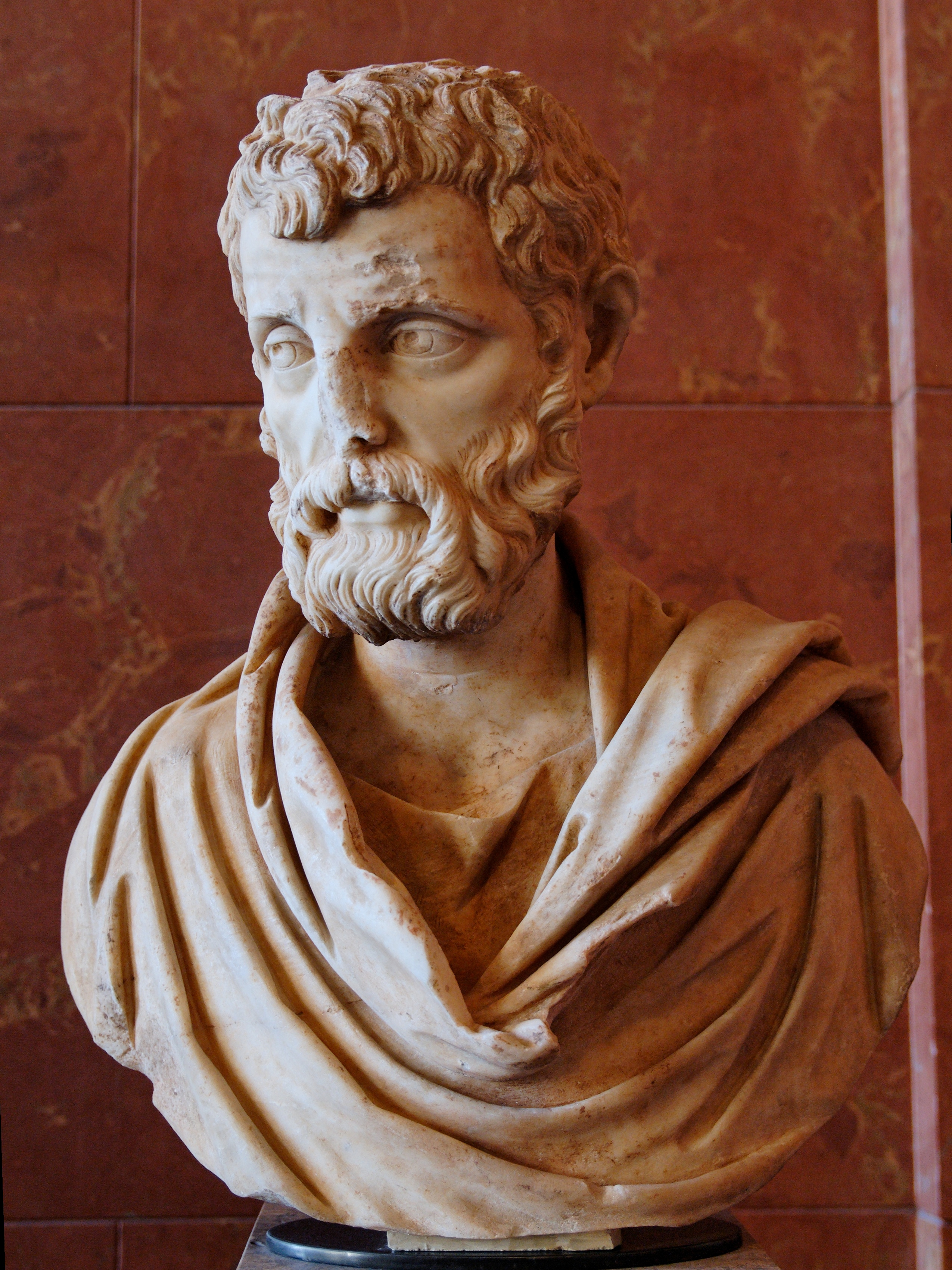 Portrait of Herodes Atticus. Marble, Roman artwork, ca. 161 CE. From Probalinthos, Attica, Greece.